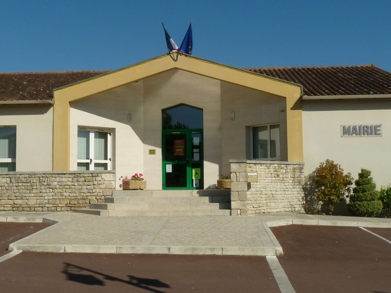 town hall